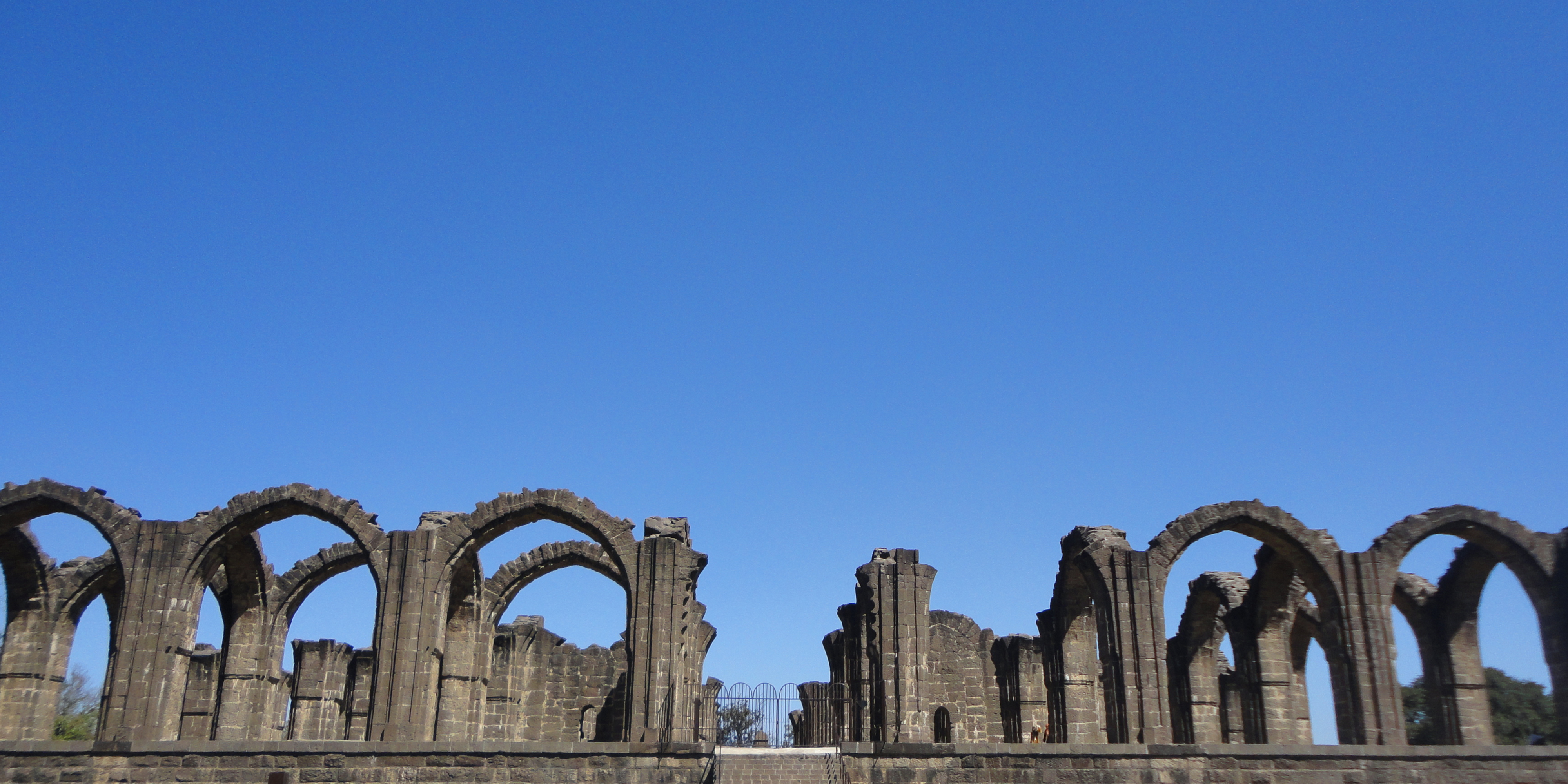 A mausoleum of Ali Roza built in 1672. It was previously named as Ali Roza, but Shah Nawab Khan changed its name to Bara Kaman as this was the 12th monument during his reign. It has now seven arches and the tomb containing the graves of Ali, his queens and eleven other ladies possibly belonging to the Zenana of the queens.